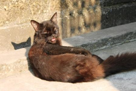 a female black cat